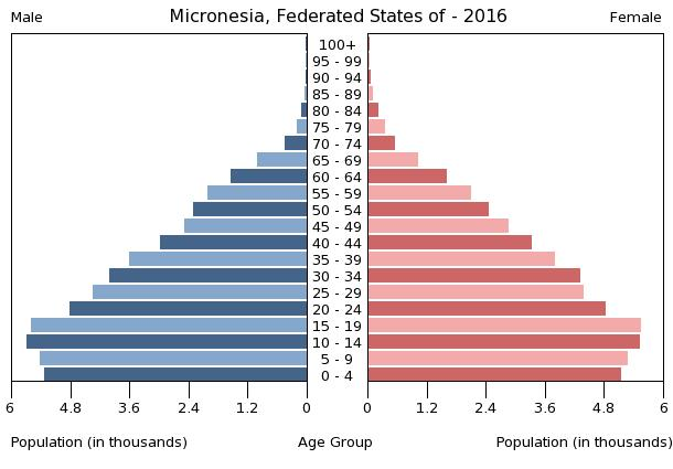 The population pyramid of the Federated States of Micronesia illustrates the age and sex structure of population and may provide insights about political and social stability, as well as economic development. The population is distributed along the horizontal axis, with males shown on the left and females on the right. The male and female populations are broken down into 5-year age groups represented as horizontal bars along the vertical axis, with the youngest age groups at the bottom and the oldest at the top. The shape of the population pyramid gradually evolves over time based on fertility, mortality, and international migration trends.